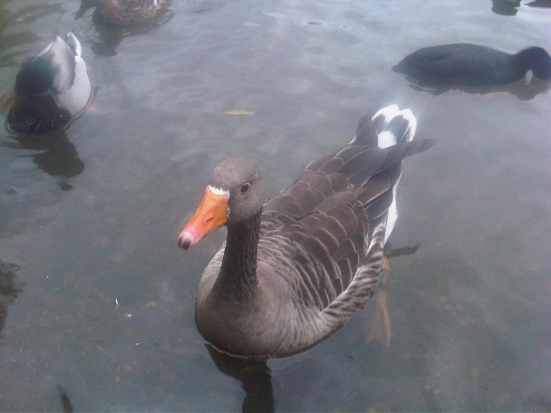 Domesticated goose (Anser anser domestica) in Barnes Pond.